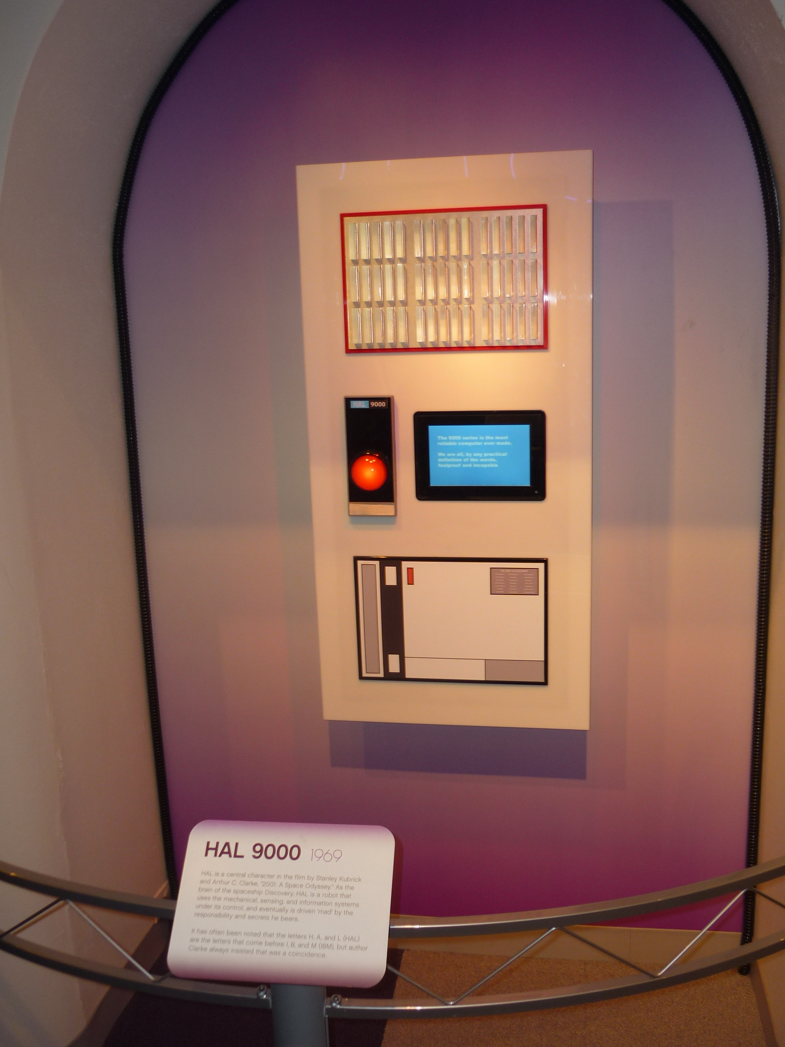 A replica of HAL 9000 (Heuristically programmed ALgorithmic computer) that was featured in Arthur C. Clarke's Space Odyssey series. In the film by Stanley Kubrick, 2001: A Space Odyssey, HAL controlled the systems of the Discovery One spacecraft and interacted with the astronauts. On display at the Robot Hall of Fame, inaugural class of 2003, in Carnegie Science Center in Pittsburgh, PA.